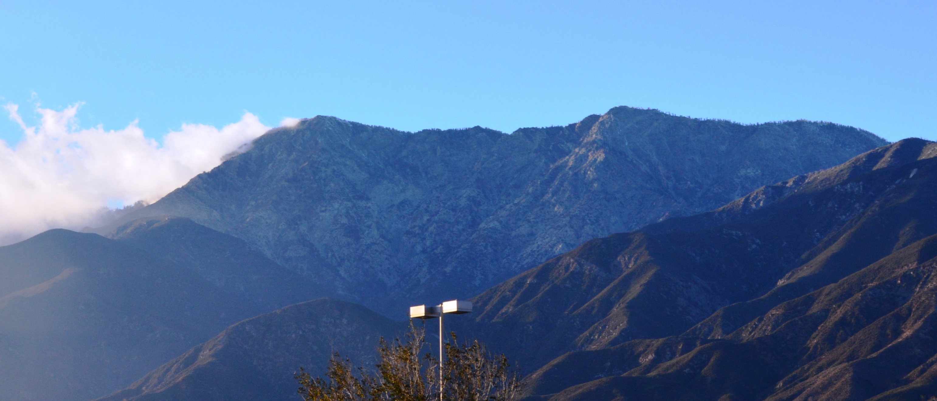 Cucamonga Peak (of the San Gabriel Mountains) seen from Falcon Ridge Town Center in Fontana, California, U.S.A. The cloud on the left had been above the peak the previous morning and more snow could be seen on the peak at the time (sorry, I have no photo of that). Most of it had melted by the time this photo was taken.